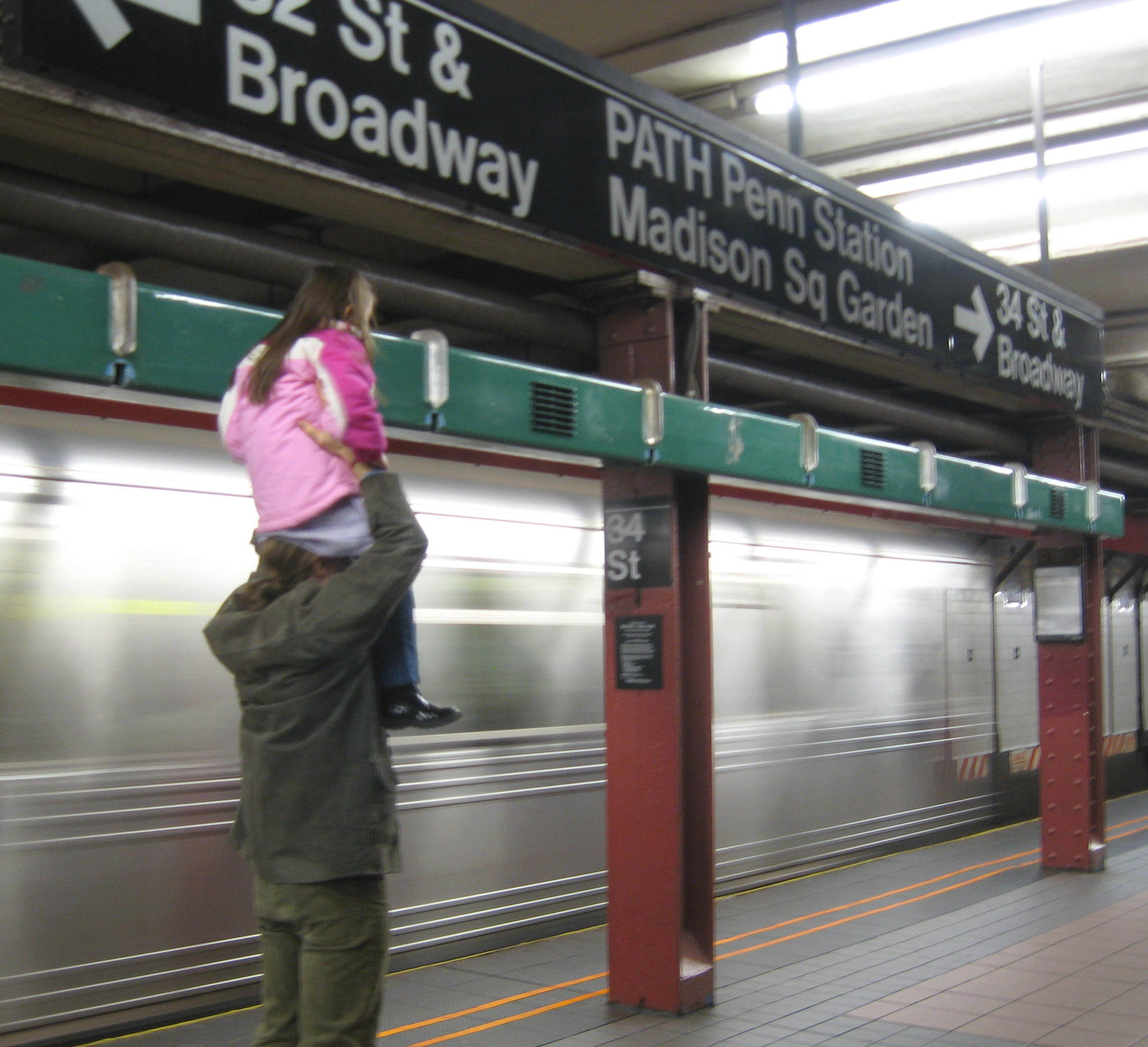 Looking north on soutbound platform of en:34th Street–Herald Square (New York City Subway) as a little girl gets a boost to play the music